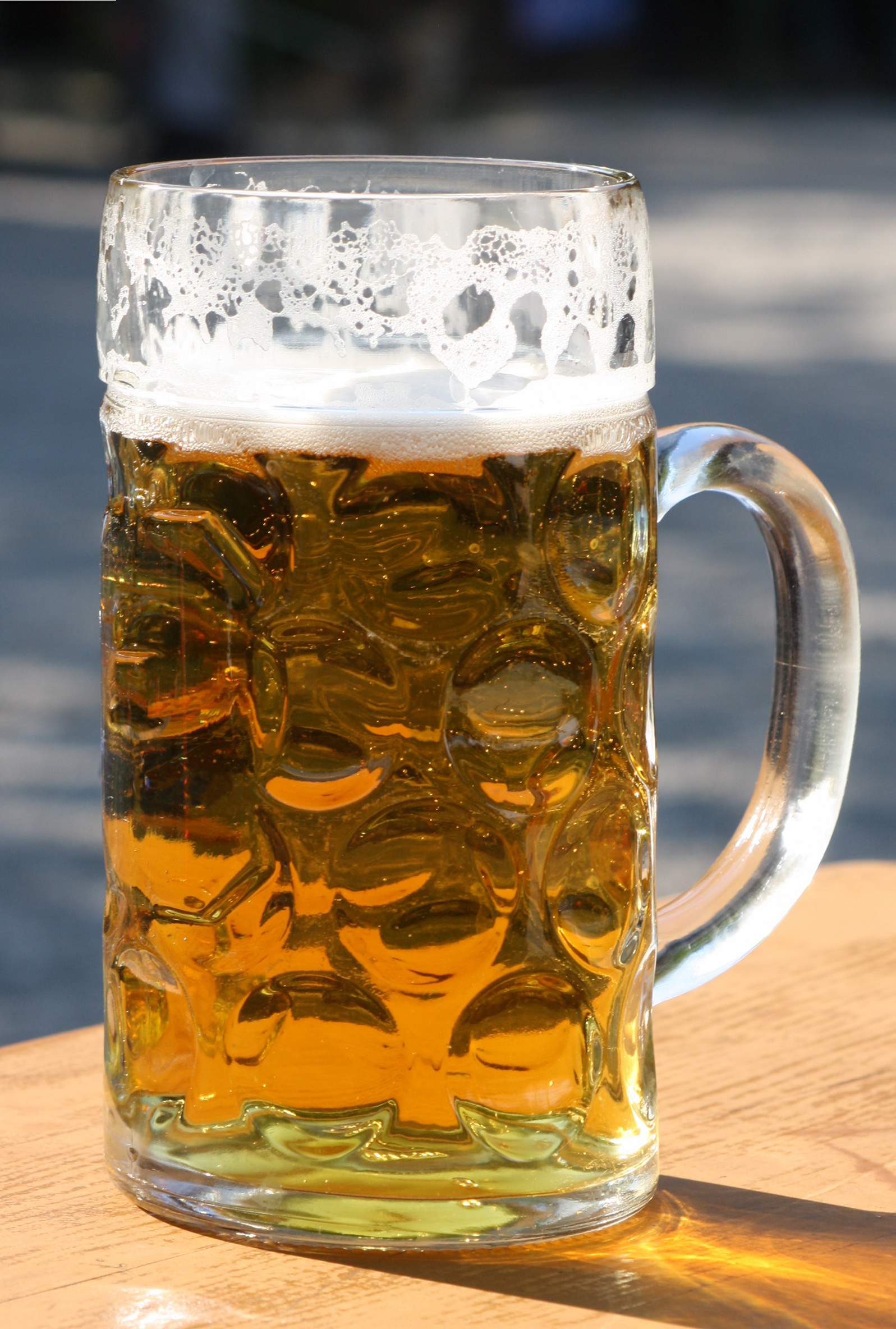 Beer mug with a liter of beer on a table.